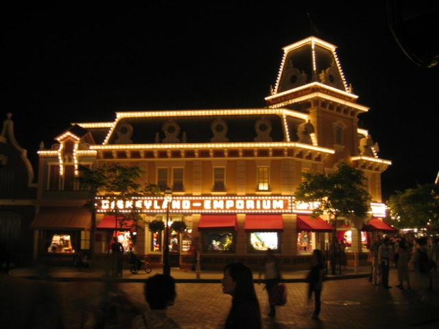 Image is a photo of the Disneyland Resort Station in Hongkong. It is taken by Hui Lok Him (doggie82) and he has the copyright.